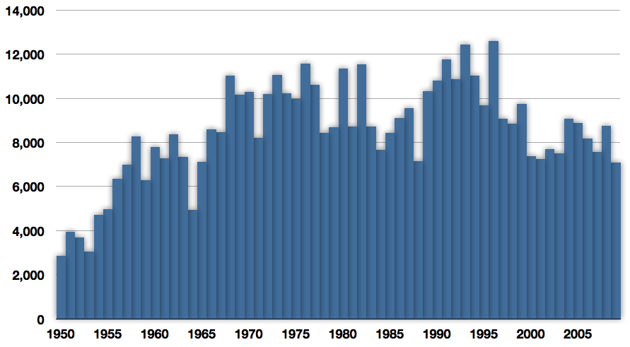 Fisheries recorded capture of Scomberomorus maculatus from 1950 to 2009. Data source FAO fisheries